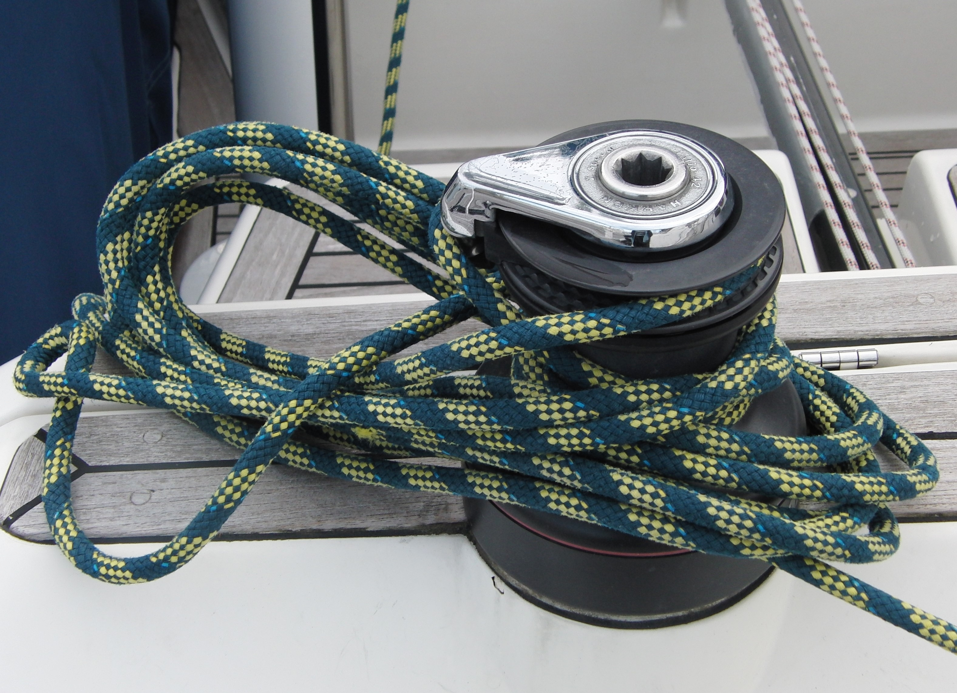 Winch Harken, 2 speed (ratio 42). on a yatch